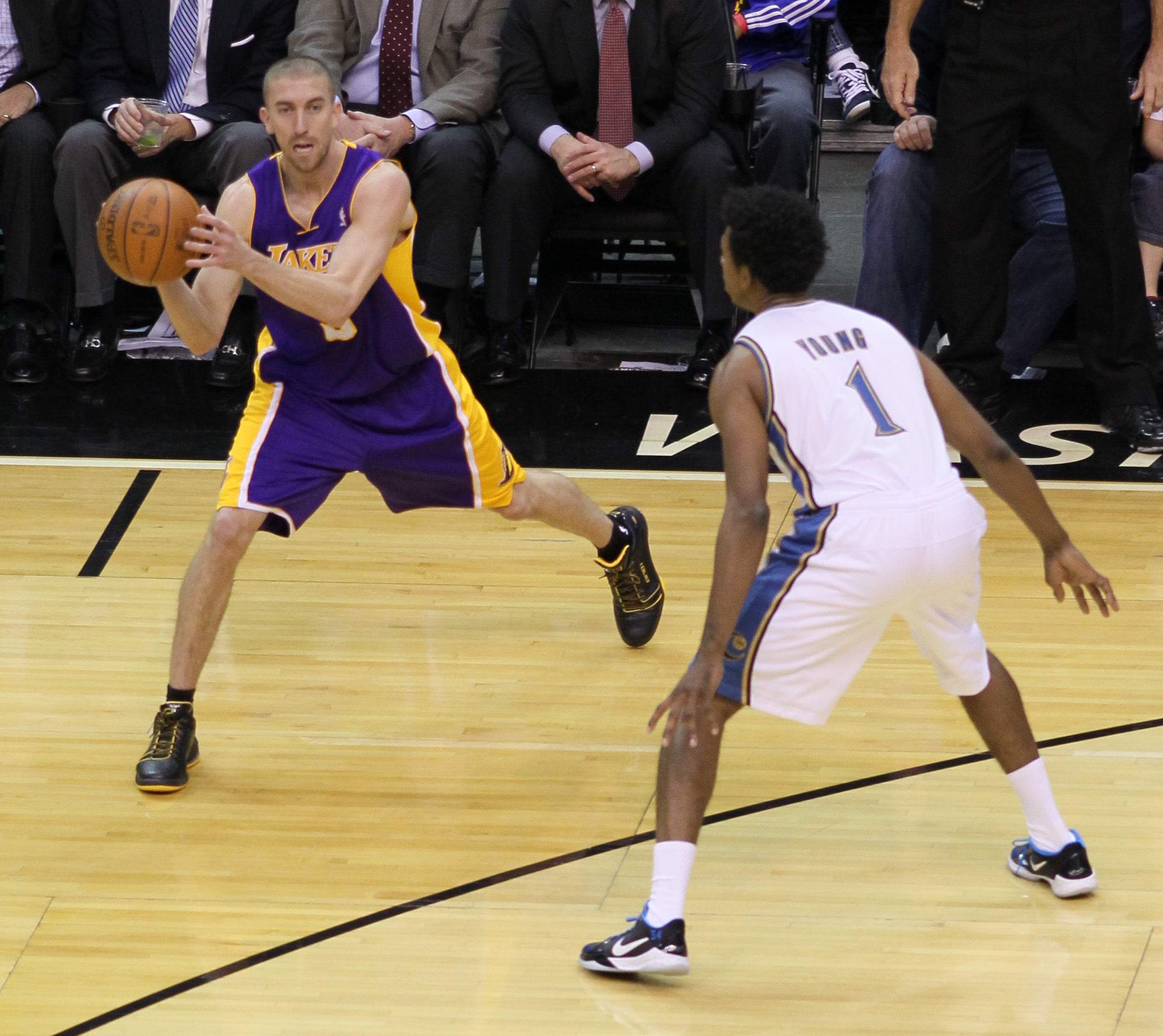 Washington Wizards v/s Los Angeles Lakers December 14, 2010